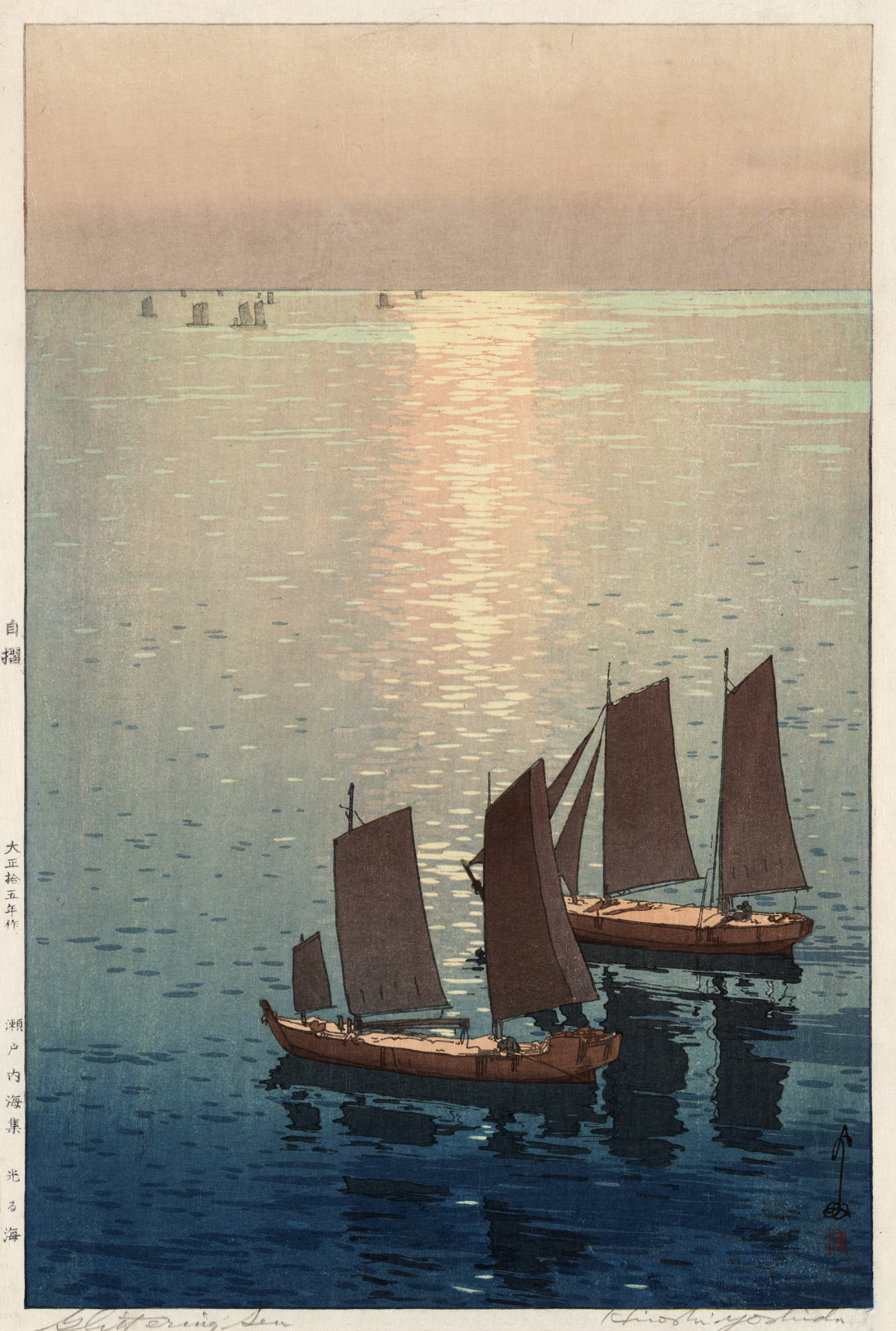 光る海 (Hikaru umi, "the sparkling sea"). Full color woodblock print by Hiroshi Yoshida showing two sailboats under full sail, from the series: Setonaikai shū (瀬戸内海集) – A series of ocean views at Seto, 1926.